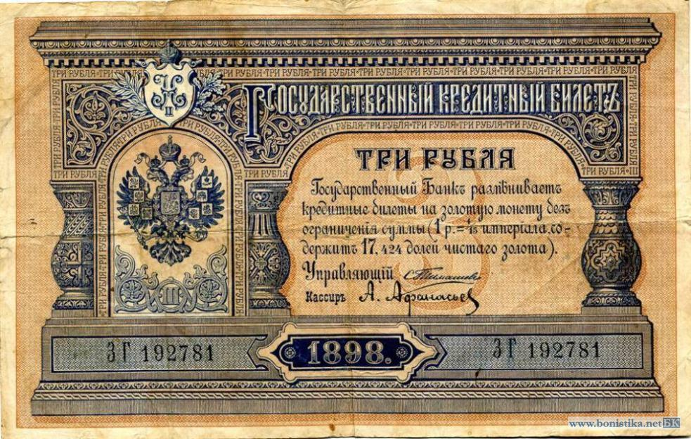 Russian Empire banknote 3 rubles version of 1898 year. Timashev